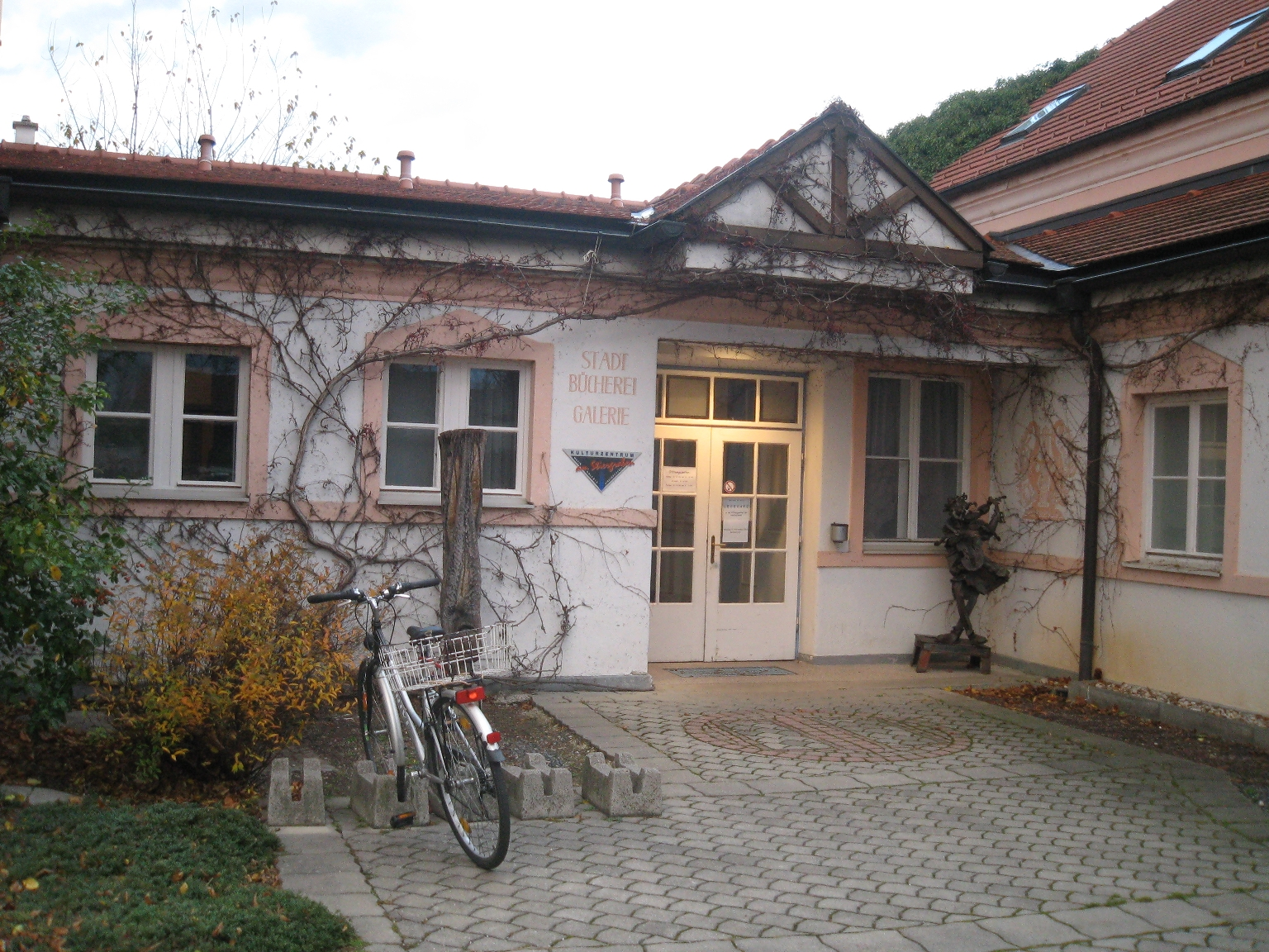 Gallery 'Am Stiergraben', Neunkirchen, Lower Austria